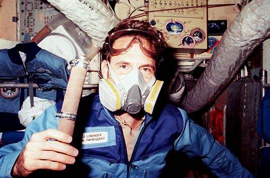 Space Station Mir - Astronaut Jerry Linenger wears a respirator mask following the 1997 fire aboard Mir.